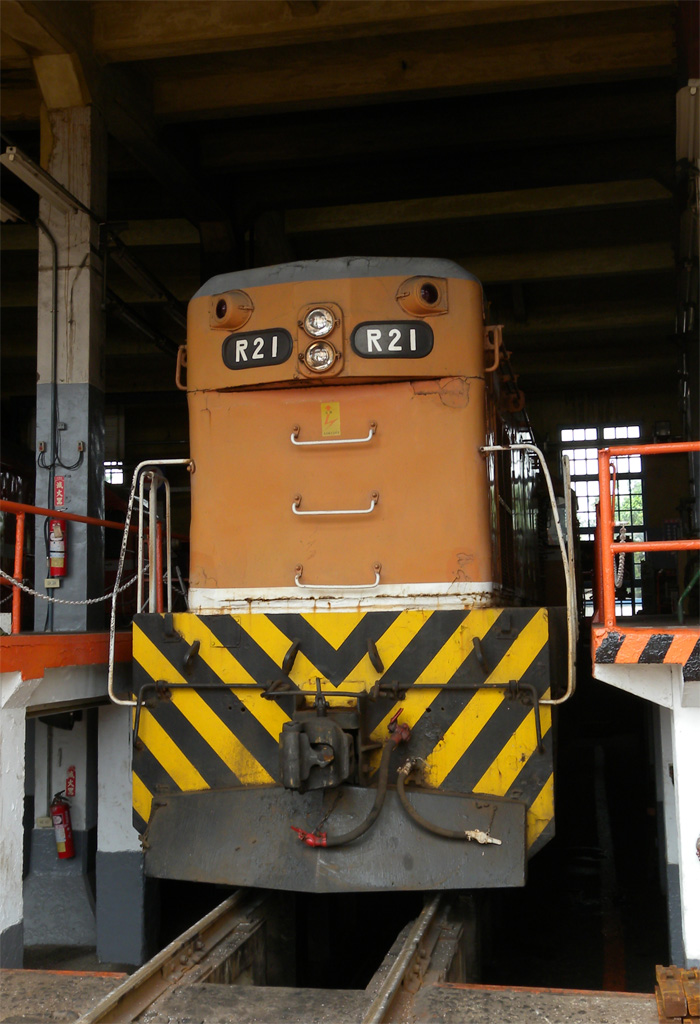 R21 DEL in 2010